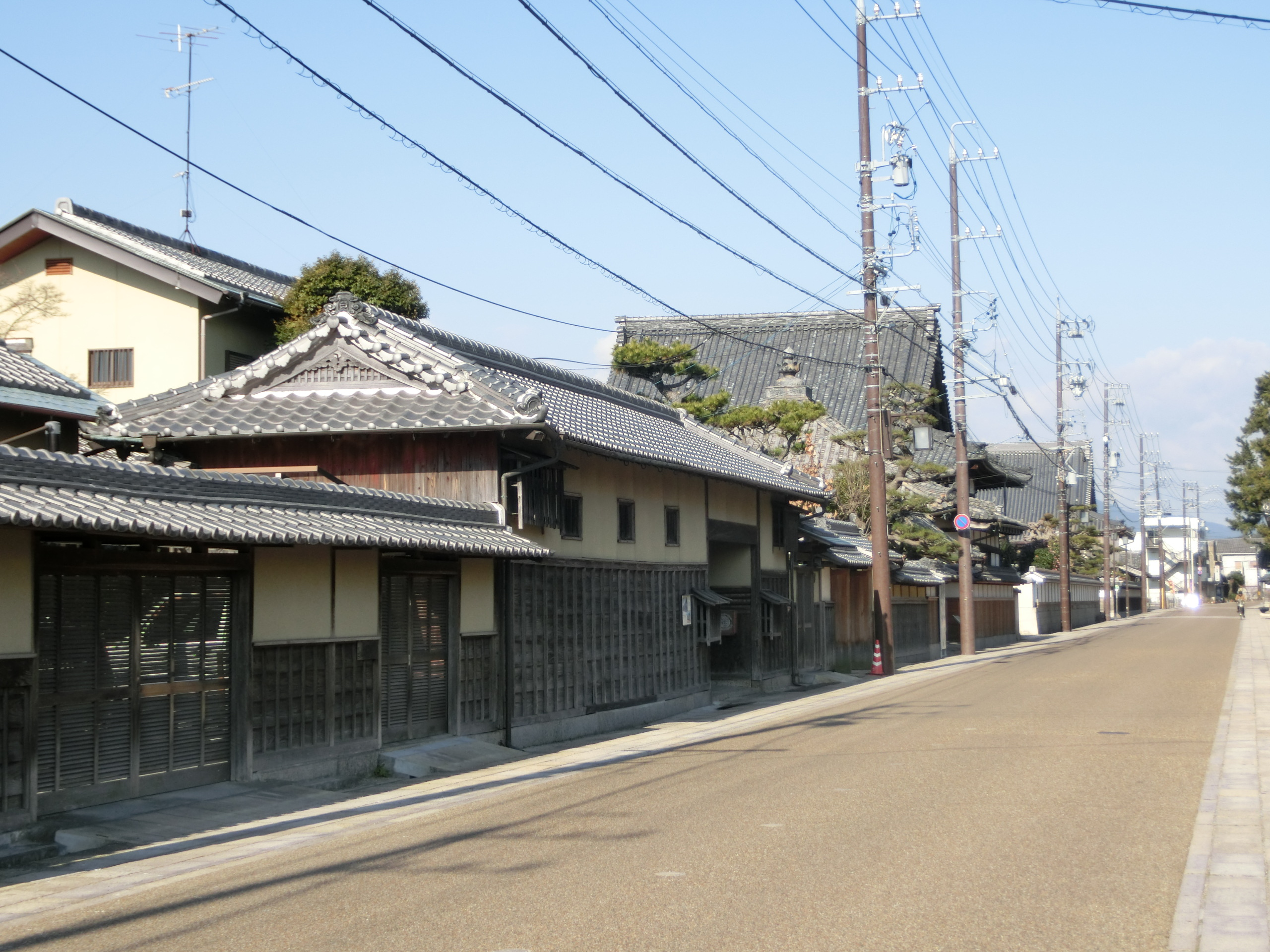 Isshinden Jinaicho